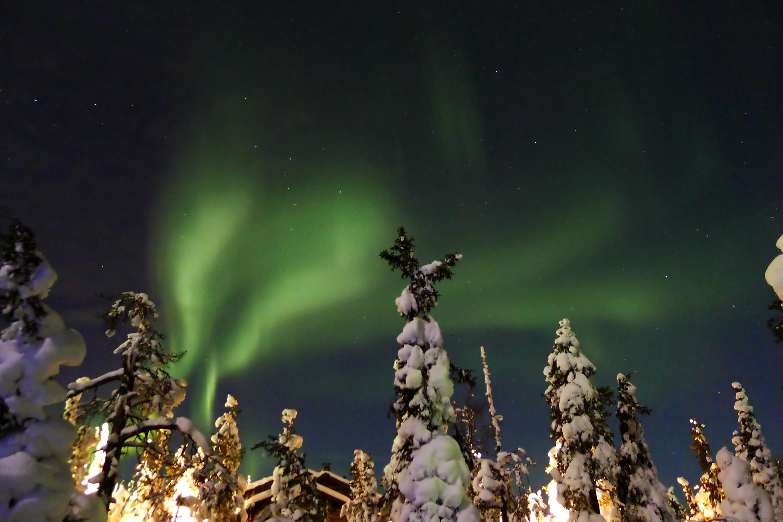 Another short burst of northern lights in Ruka, Finland